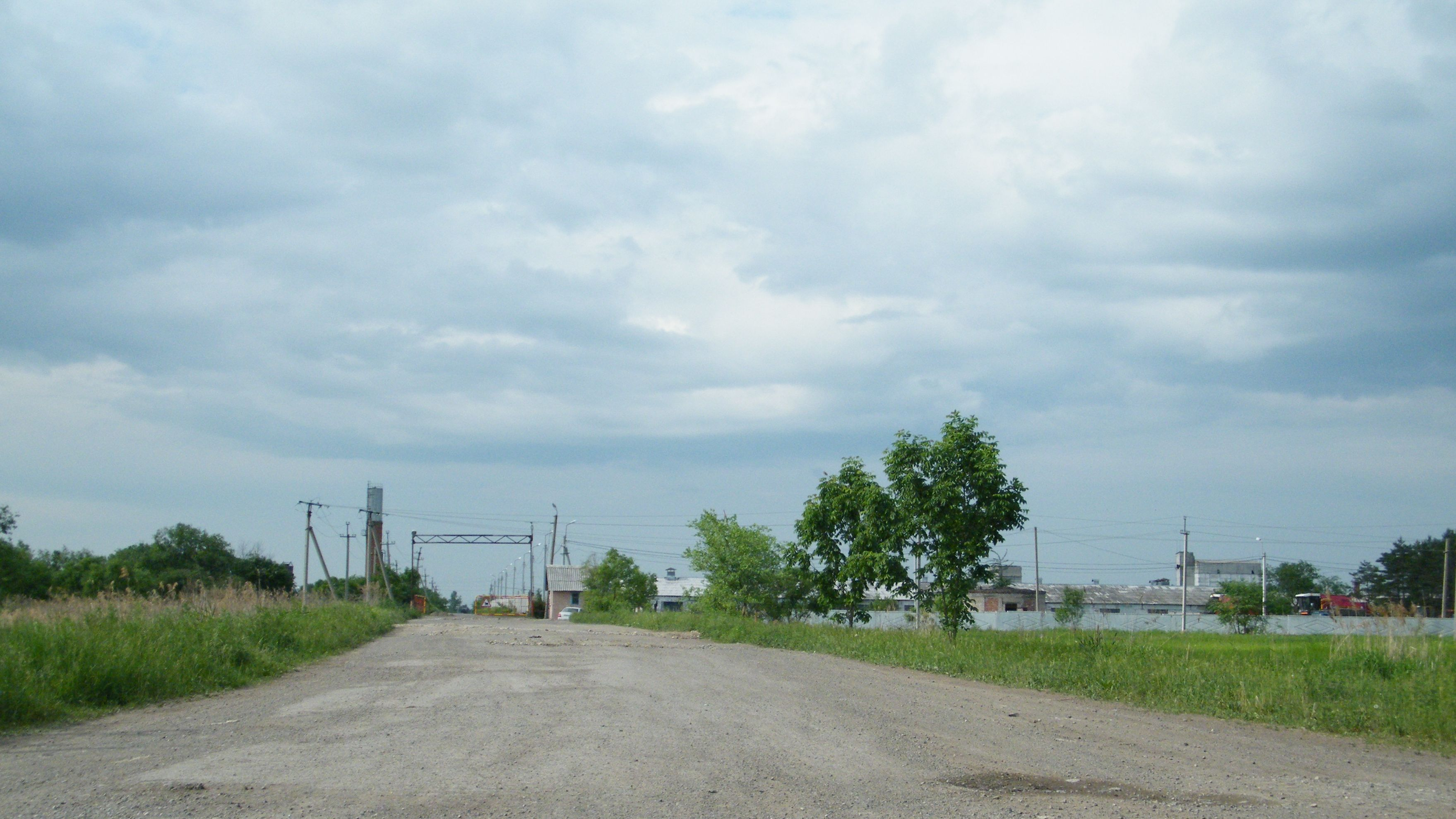 Khabarovsk Krai